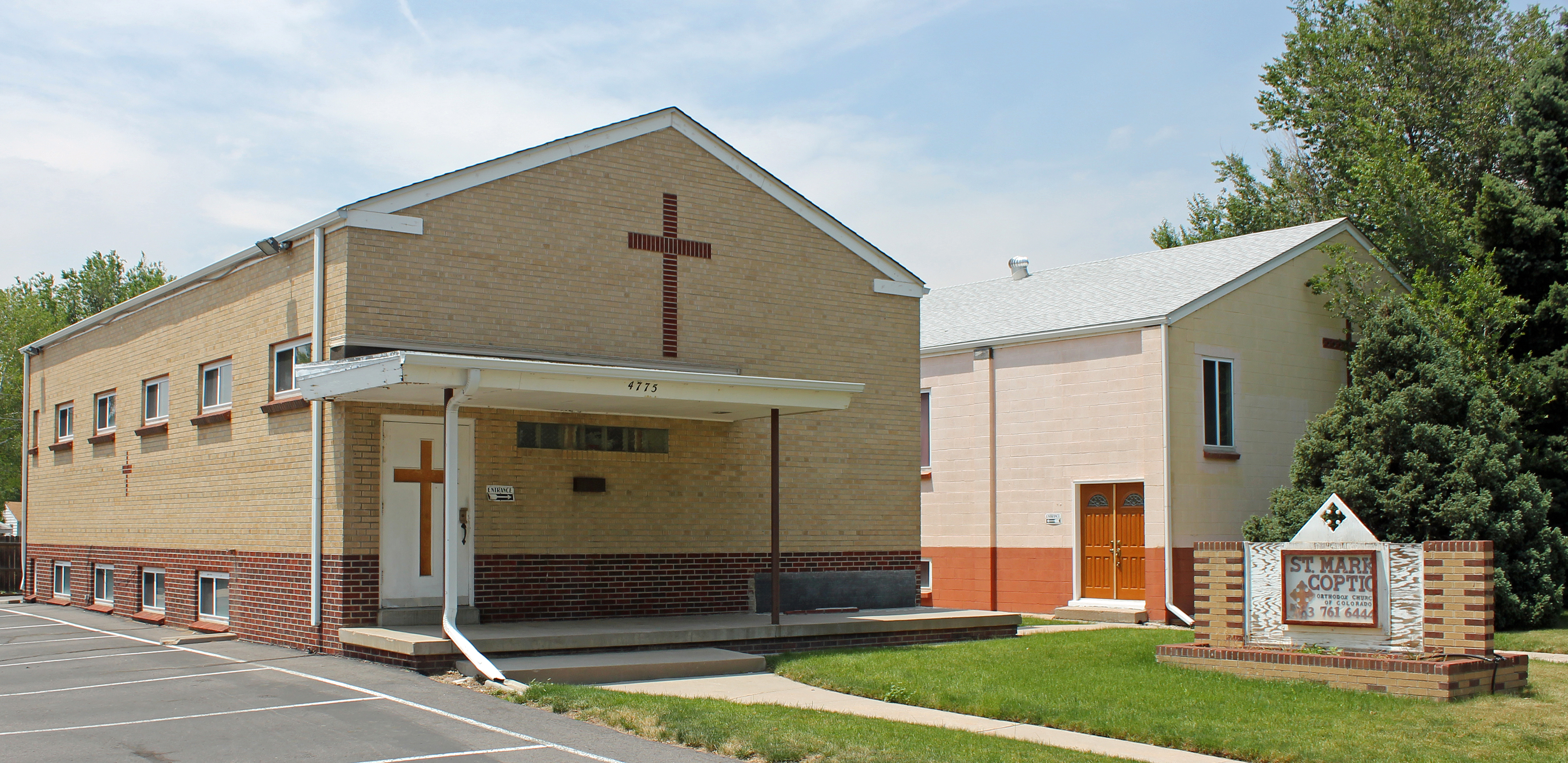 St. Mark Coptic Orthodox Church, located at 4775 South Pearl Street in Englewood, Colorado.